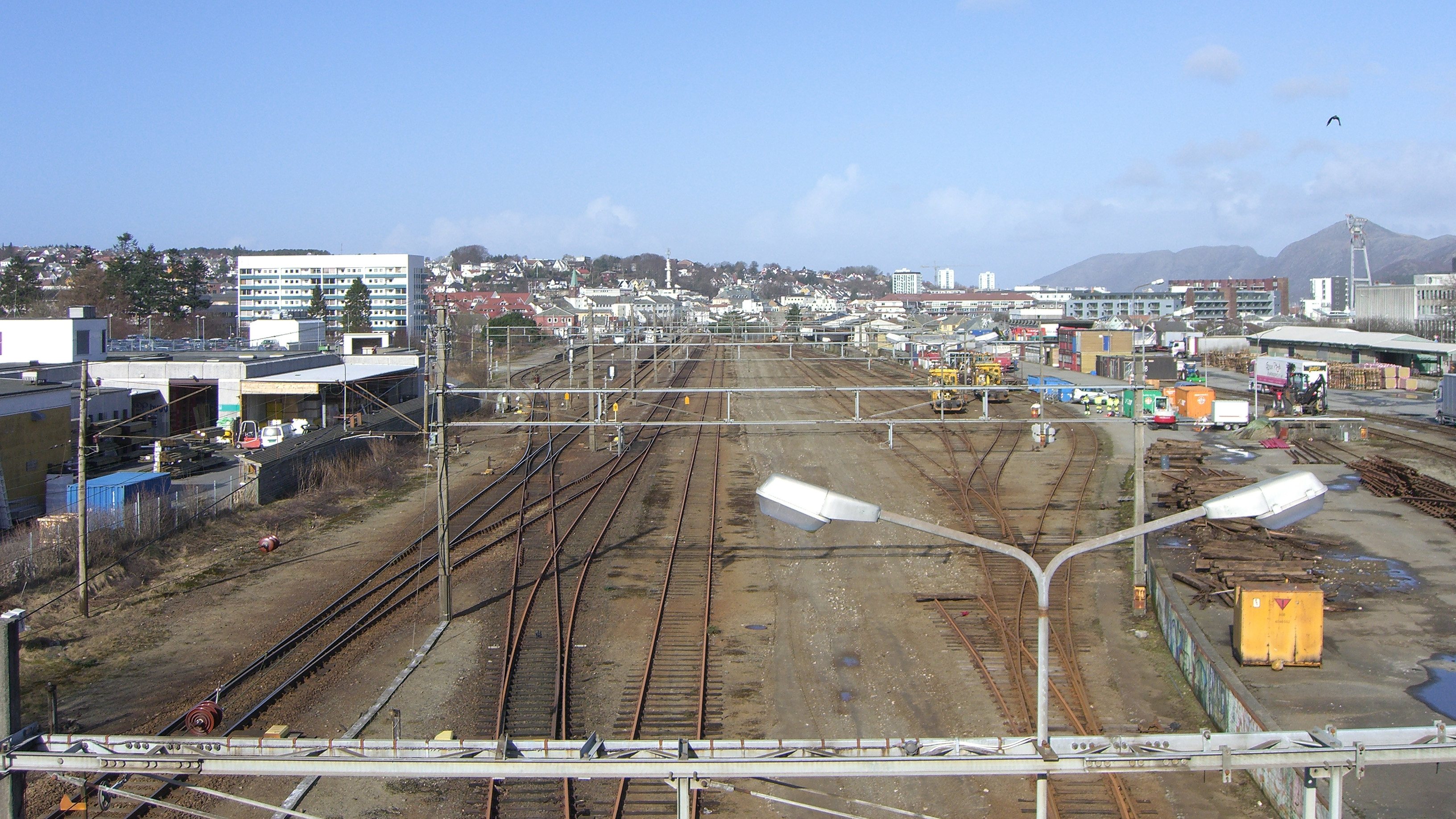 Brueland in Sandnes, Norway